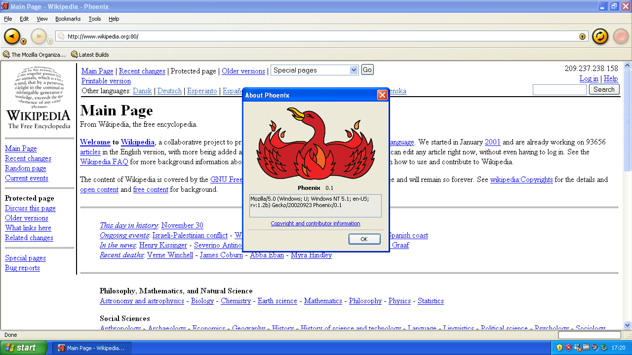 Phoenix 1.0 by Mozilla running on Windows XP. The Wikipedia-homepage from November 2002 has been rendered.